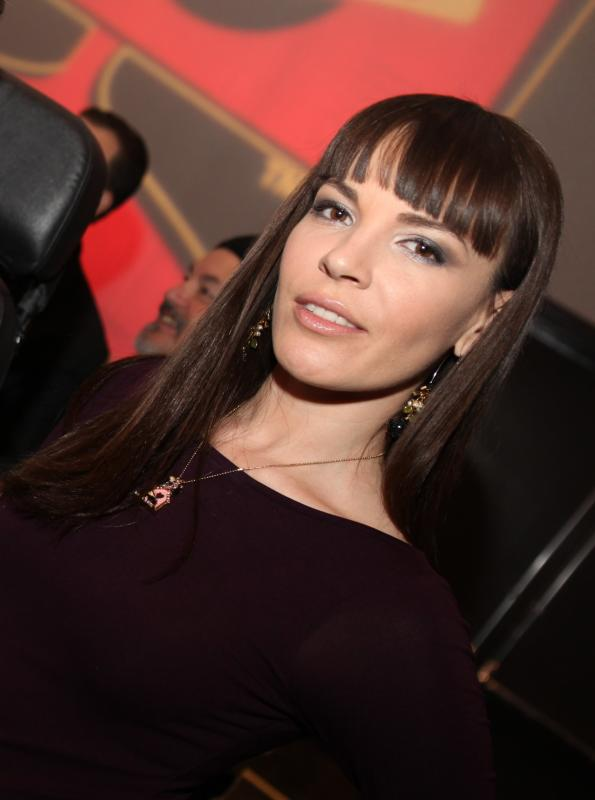 Dana DeArmond at the AEE Expo Hall. Photos from the 2012 AEE Expo & AVN Awards held at the at the Hard Rock Hotel & Casino in Las Vegas.